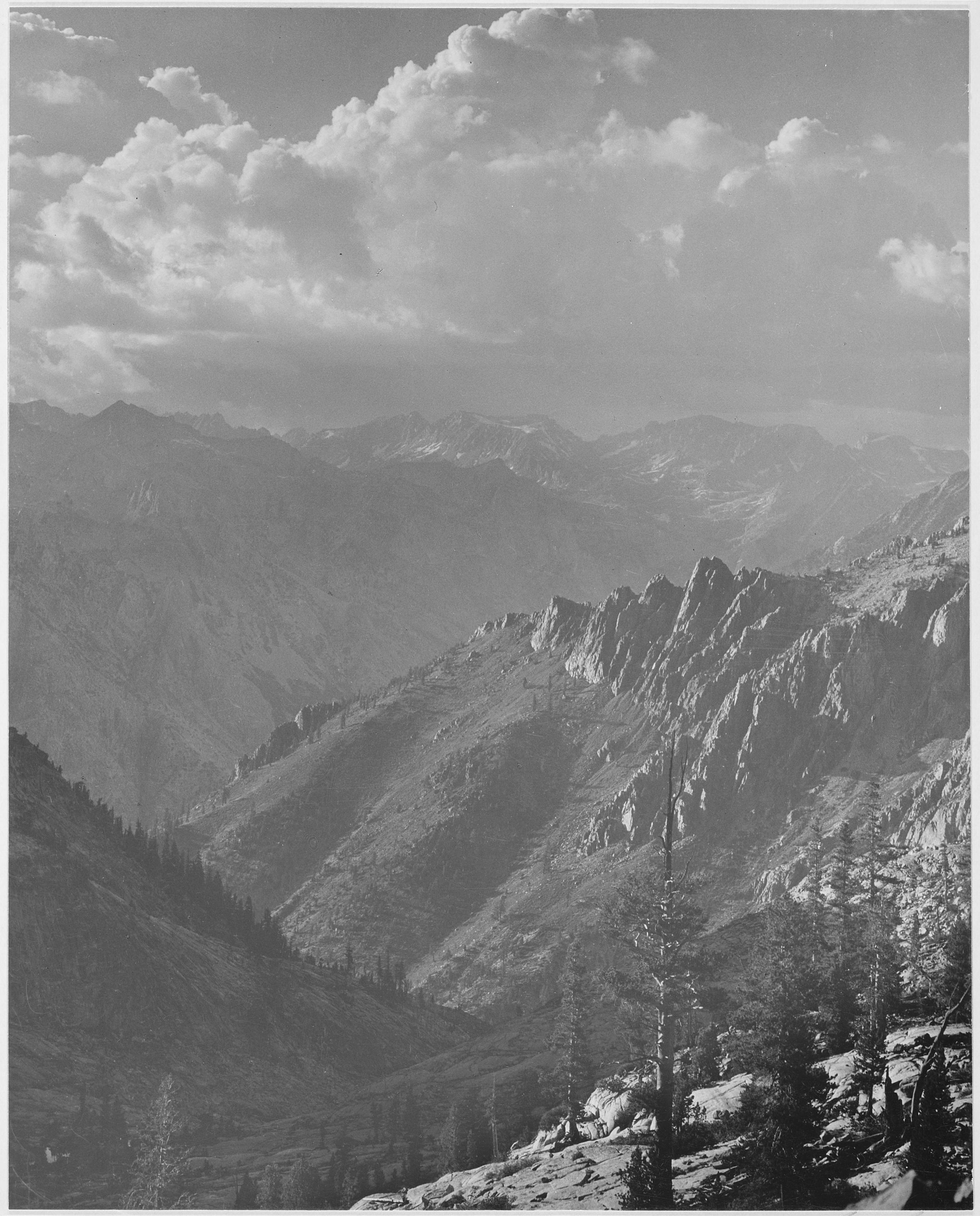 "Middle Fork at Kings River from South Fork of Cartridge Creek, Kings River Canyon (Proposed as a national park)," California, 1936. (vertical orientation); From the series Ansel Adams Photographs of National Parks and Monuments, compiled 1941 - 1942, documenting the period ca. 1933 - 1942.